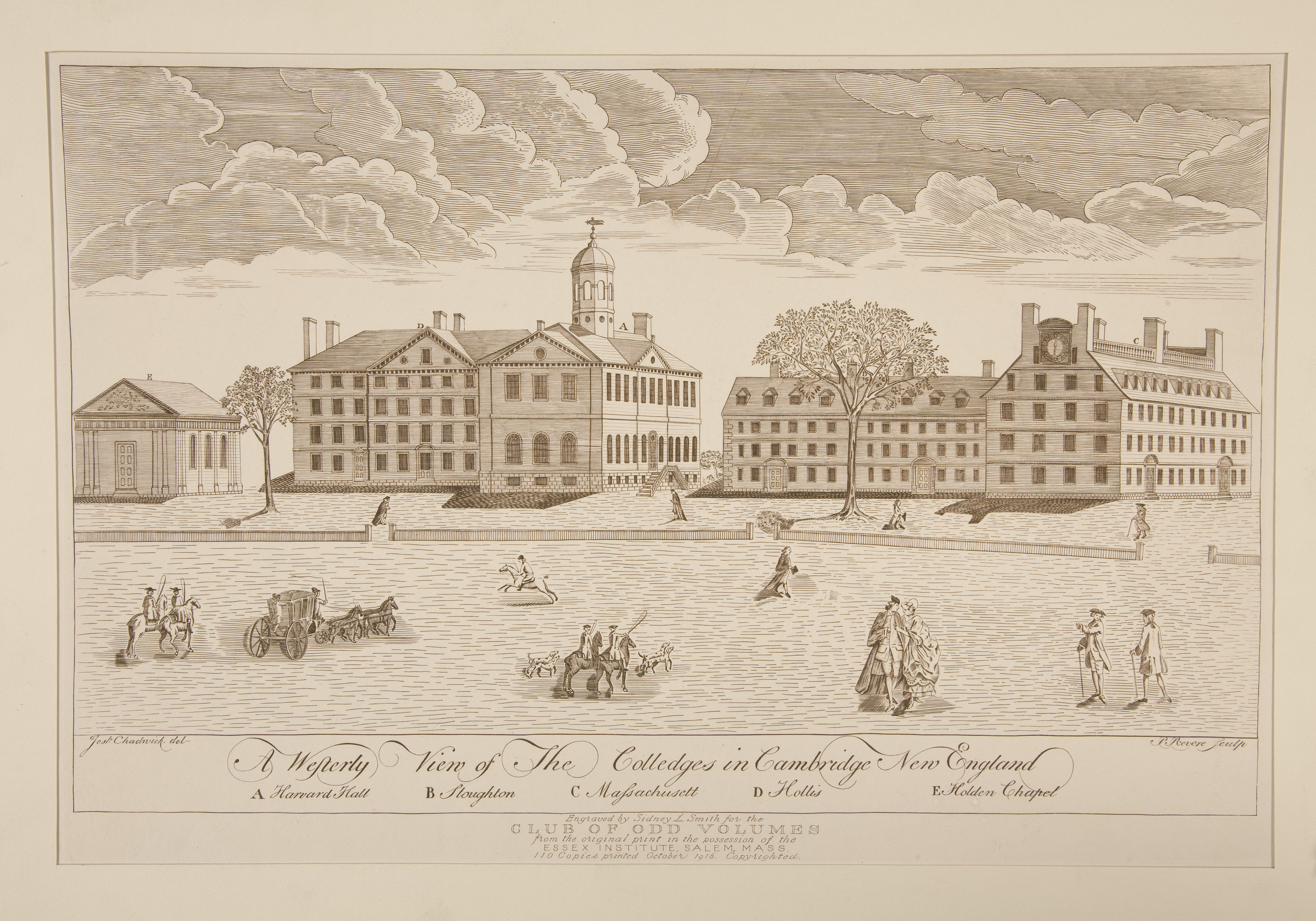 "A Westerly View of the Colledges in Cambridge New England," line engraving (after Joseph Chadwick), by the American engraver and silversmith Paul Revere. 12 3/16 in. x 16 15/16 in. Yale University Art Gallery, Mabel Brady Garvan Collection. Courtesy of Yale University, New Haven, Conn.